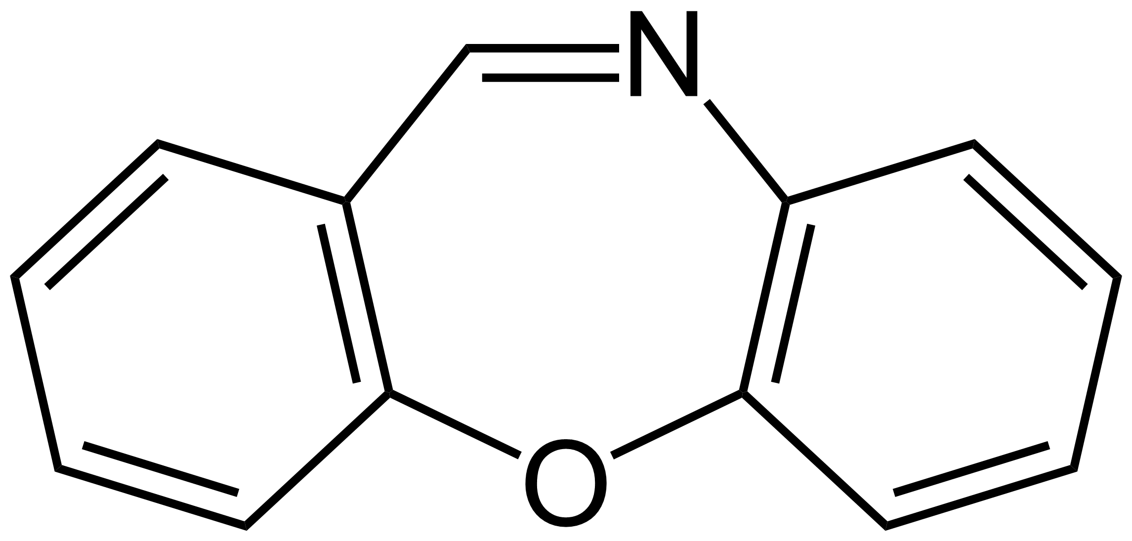 CR gas (dibenzoxazepine) structure